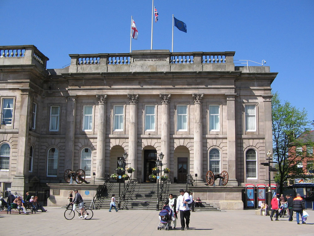 Ashton-under-Lyne town hall Photo by G-Man May 2006